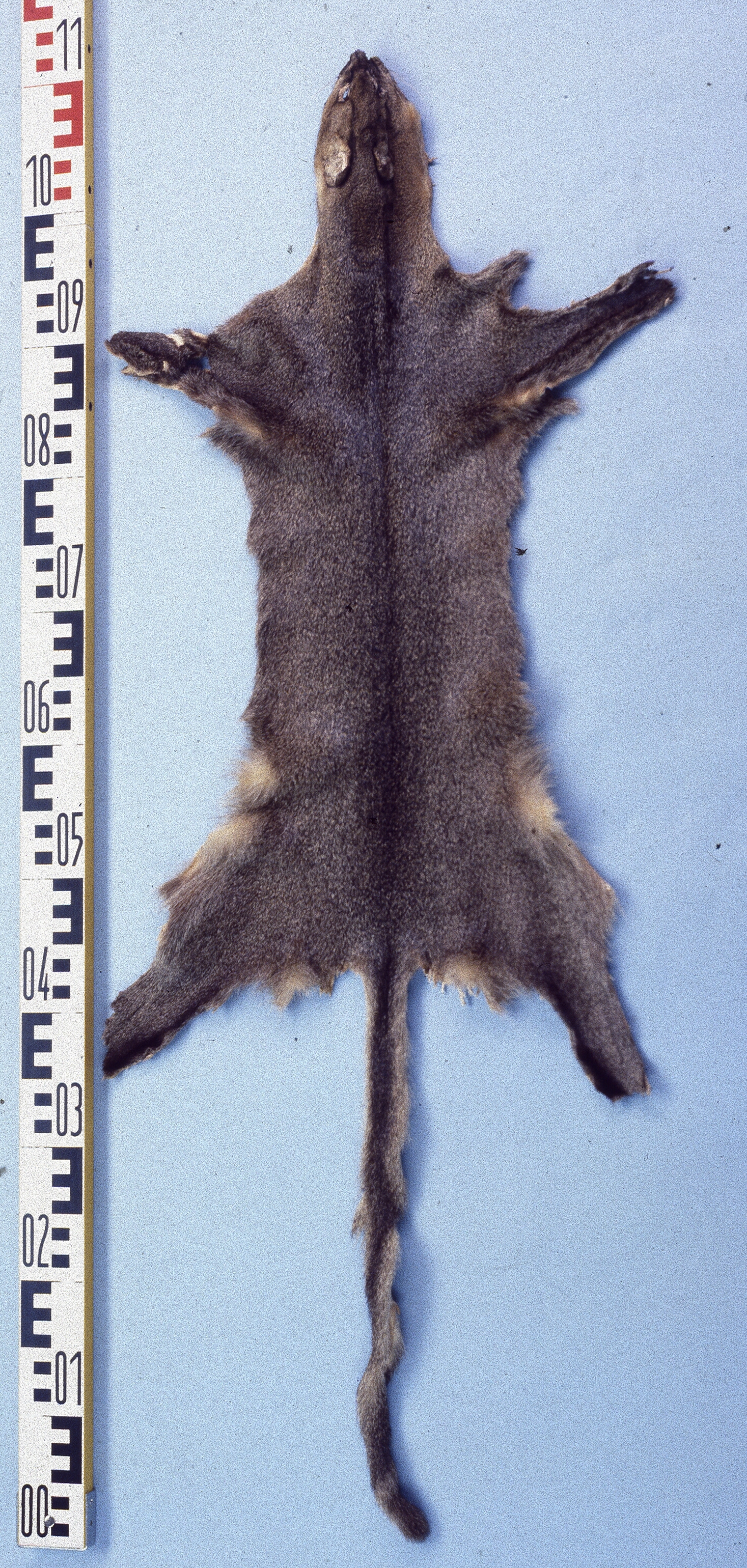 Jaguarondi fur skin (Felis (herpailurus) yagouaroundi). Fur skin collection, Bundes-Pelzfachschule, Frankfurt/Main, Germany